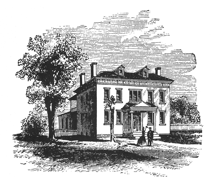 Drawing of the John Hervey Crozier House in Knoxville, Tennessee